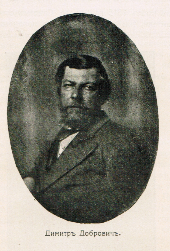 Portrait of Dimitar Dobrovich, the first academically-trained Bulgarian painter